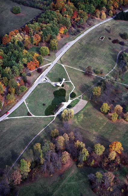 Šumarice memorial park in Kragujevac